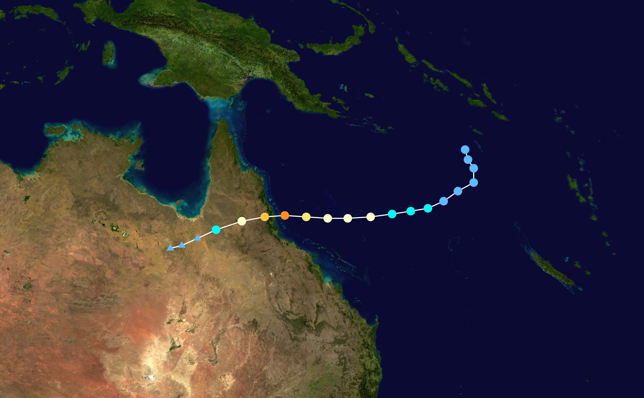 Cyclone Larry (2006) track. Uses the color scheme from the Saffir-Simpson Hurricane Scale.